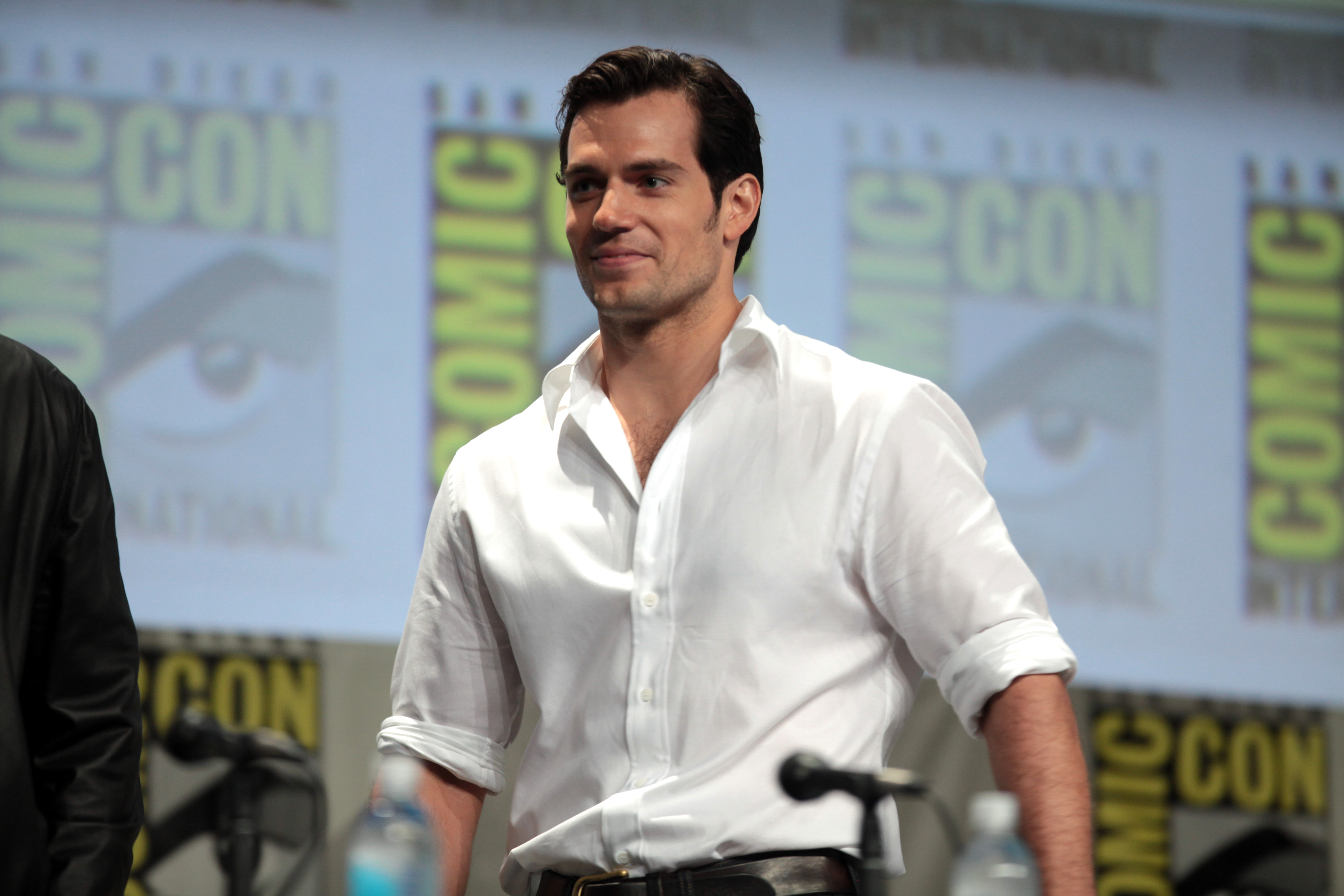 Henry Cavill speaking at the 2014 San Diego Comic Con International, for "Batman v Superman: Dawn of Justice", at the San Diego Convention Center in San Diego, California on July 26, 2014. Photo by Gage Skidmore